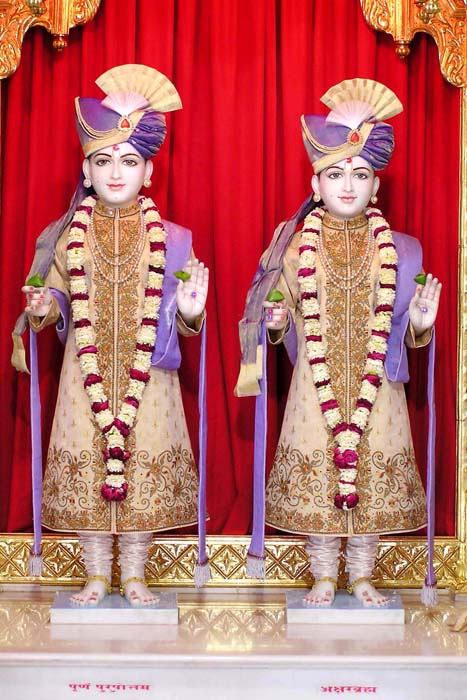 Murtis of Shree Akshar-Purushottam Maharaj